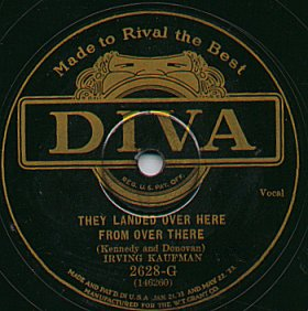 Label of Diva Records 78 rpm (or actually 80 I think) gramophone record